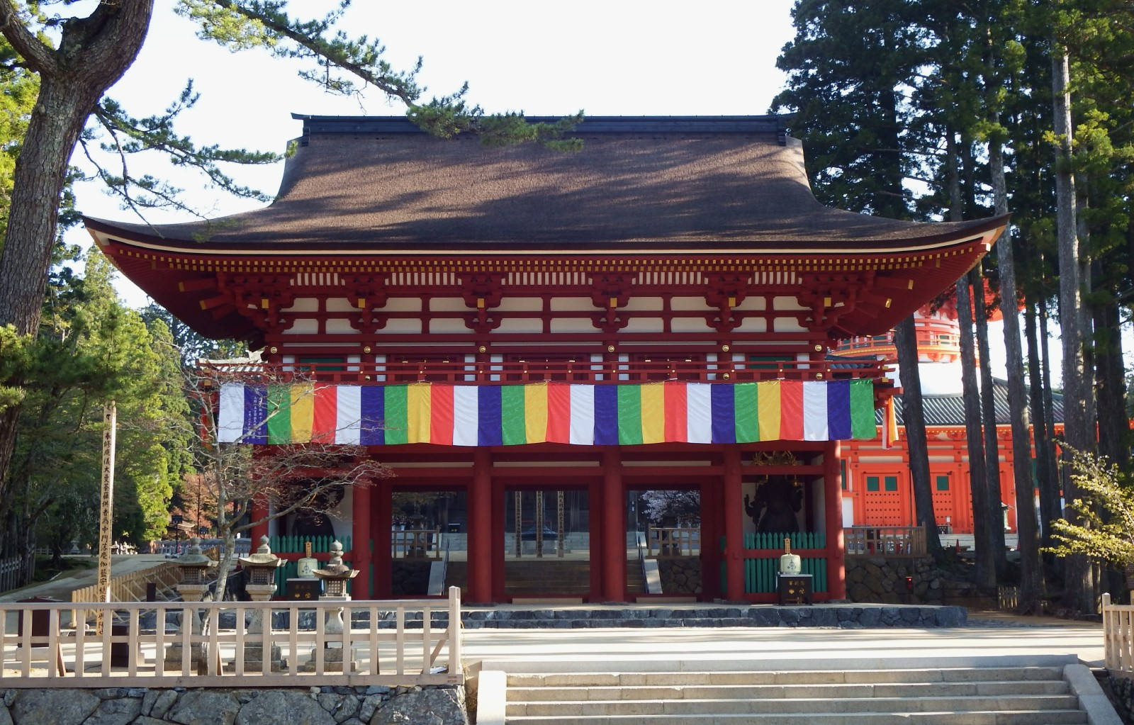 Chūmon gate of Kōyasan Danjō Garan